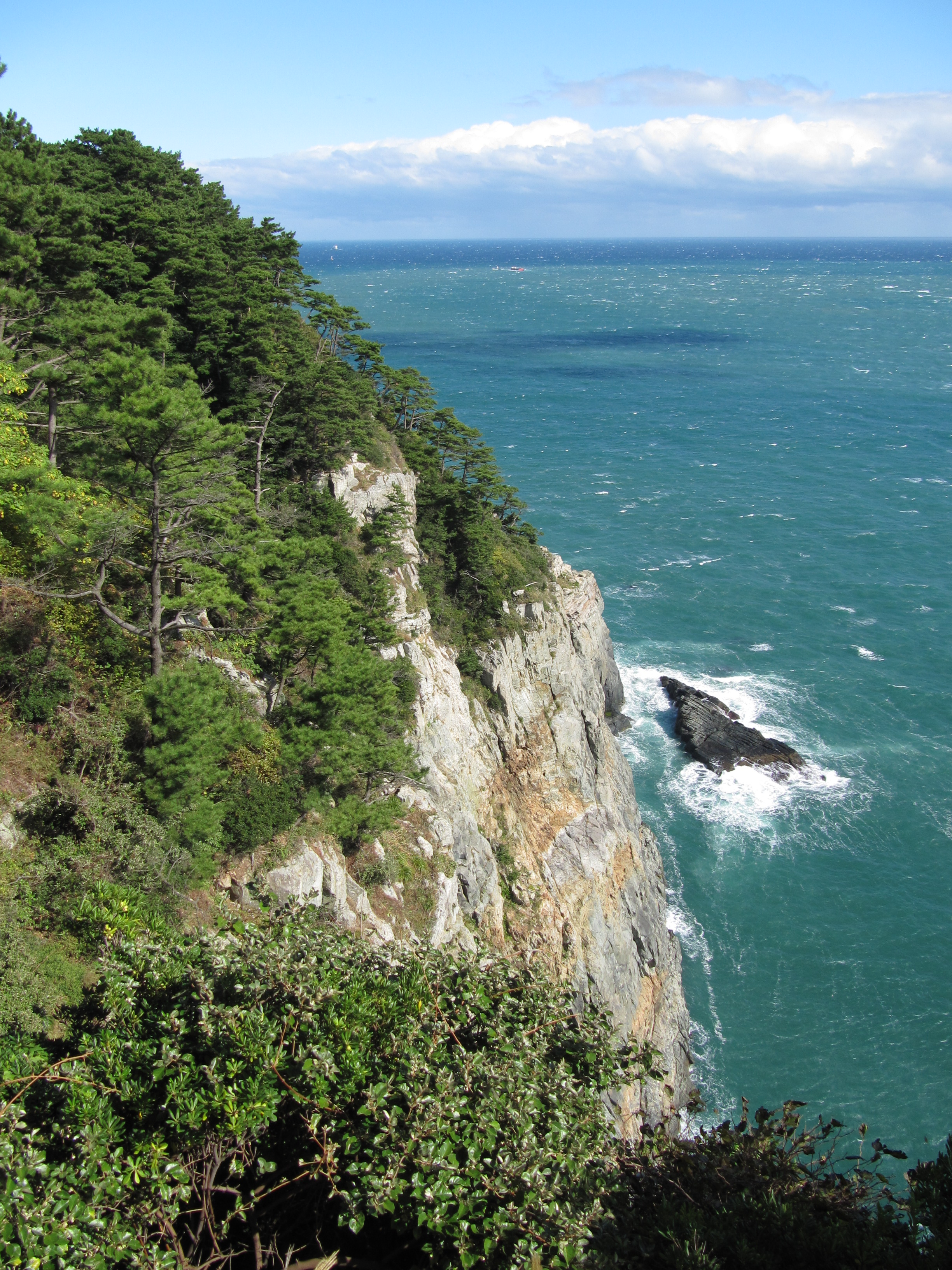 Taejongdae